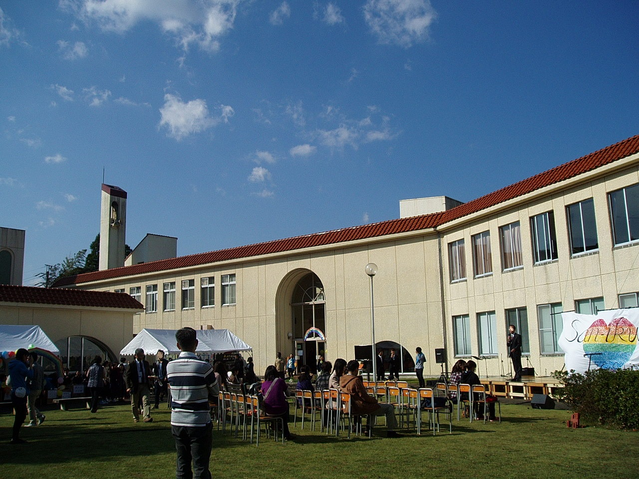 Building #1 at Otaki Campus, Saniku Gakuin College, located in Otaki, Chiba, Japan. Personal faces have been masked by the uploader.